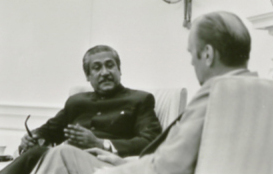 The photo contact sheet, identified as A1159 by the White House Photographic Office (WHPO), is housed at the Gerald R. Ford Presidential Library, a branch of the National Archives and Records Administration (NARA). This file is a 200 dpi photo contact sheet having images from roll of film A1159 of the August 9, 1974 - January 20, 1977 Gerald R. Ford White House Photographic Office Series A0001-A9999 and B0001-B2886 photographs. The date on the photo contact sheet is the date the roll of film was processed, not necessarily the date the photographs were taken. See table below for additional details.